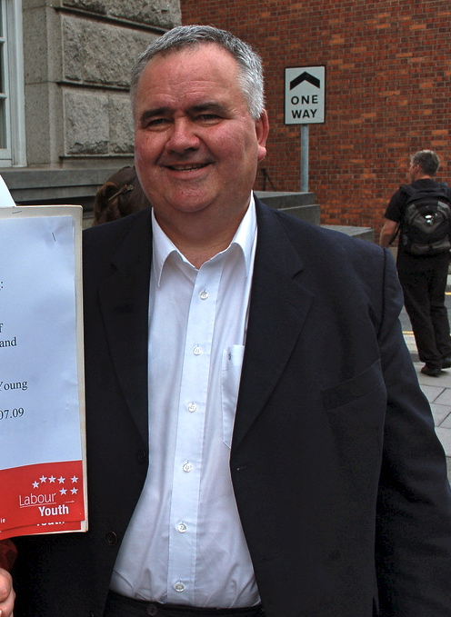 Willie Penrose at a Labour Youth protest